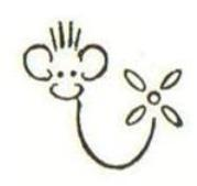 Logo and mascot for Don Policarpo traveling Puppet Theatre, founded in Asunción Paraguay by Humberto Gulino and Elisa Godoy.